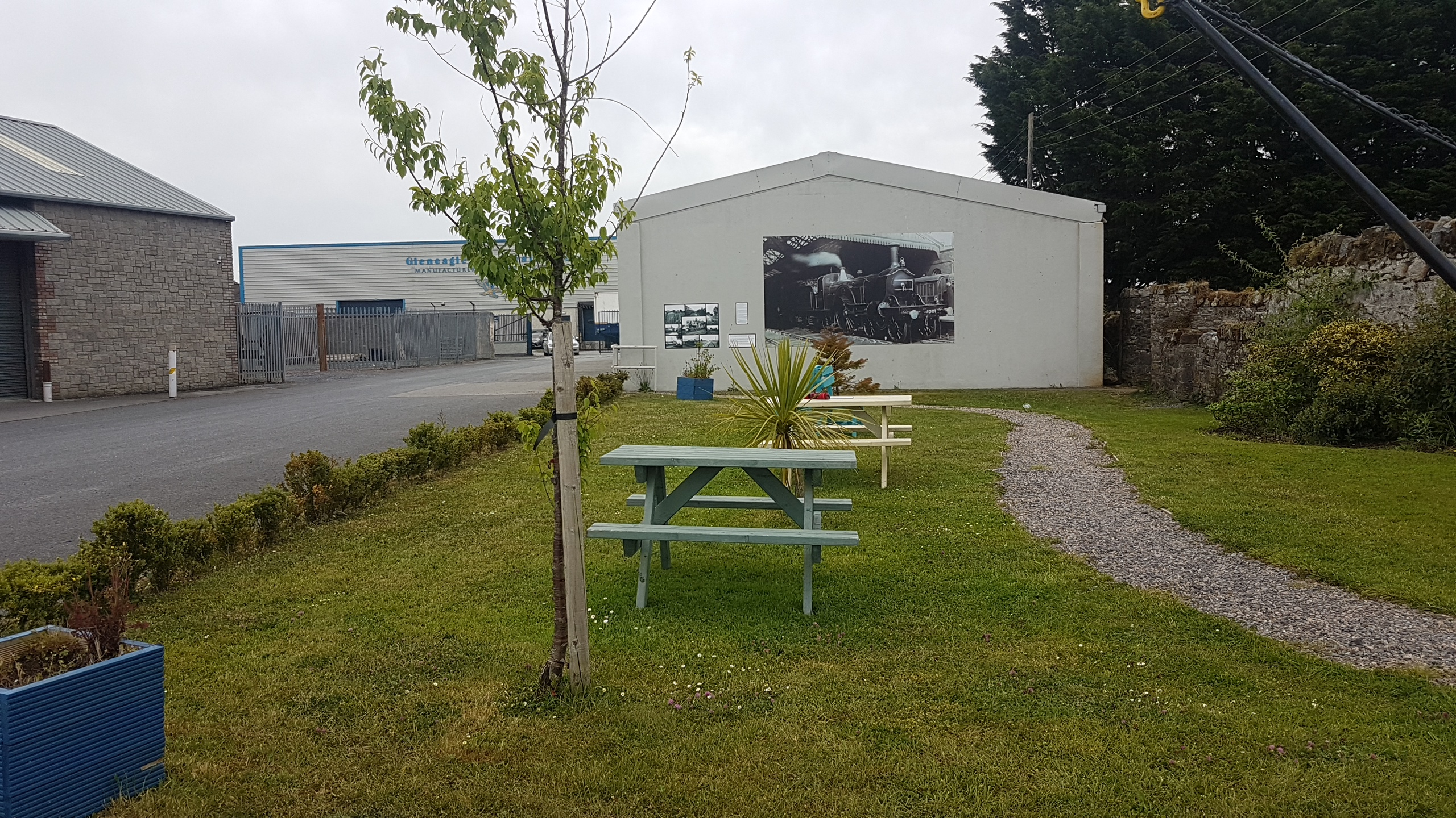 Commemorative garden in Oldcastle